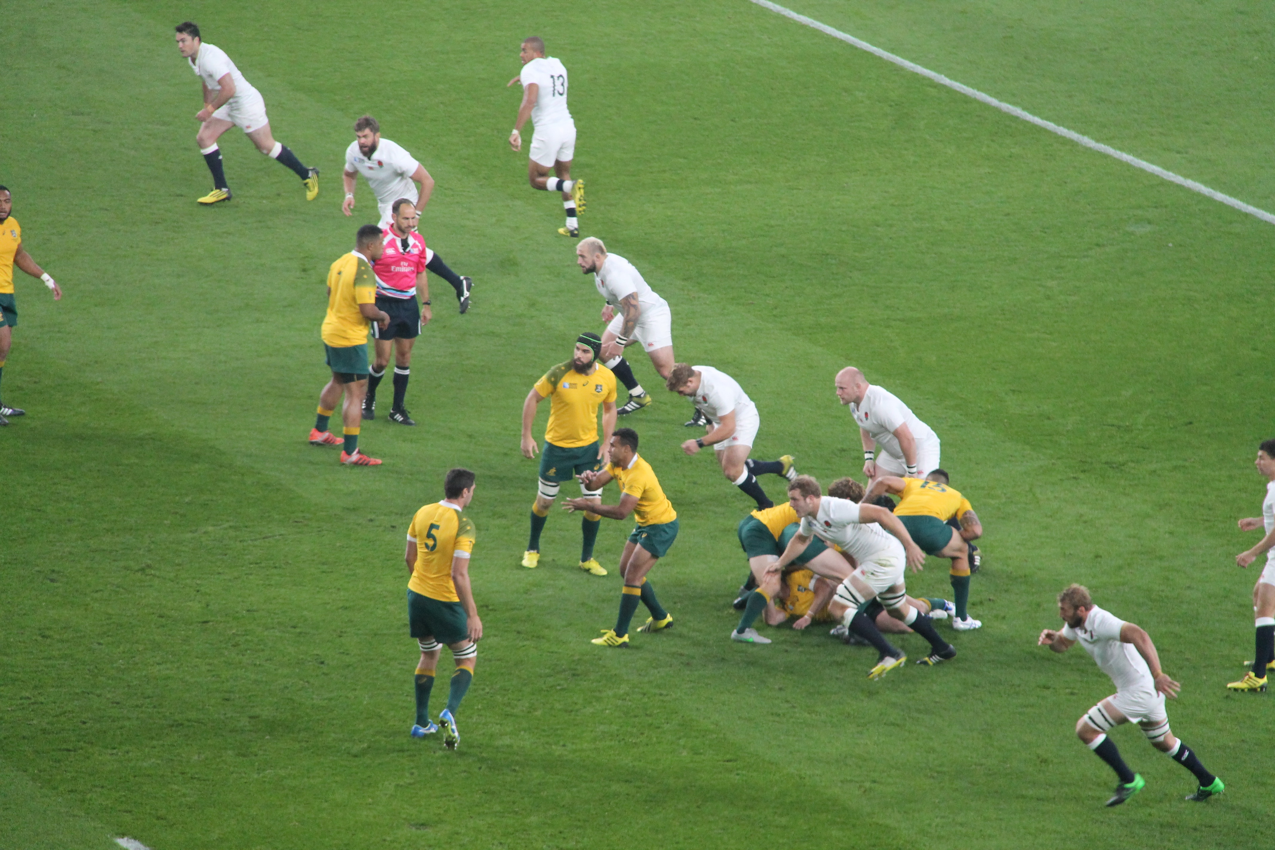 2015 Rugby World Cup match between England and Australia at Twickenham Stadium, London.